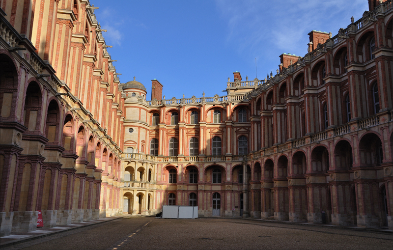 Inner courtyard of the Château de Saint-Germain-en-Laye